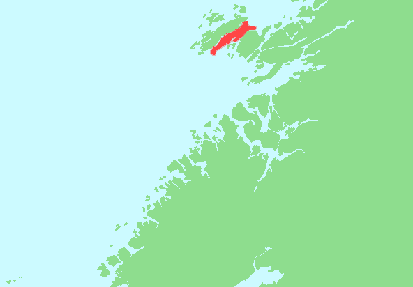 Locator map of Mellom-Vikna, Vikna municipality, Nord-Trøndelag, Norway